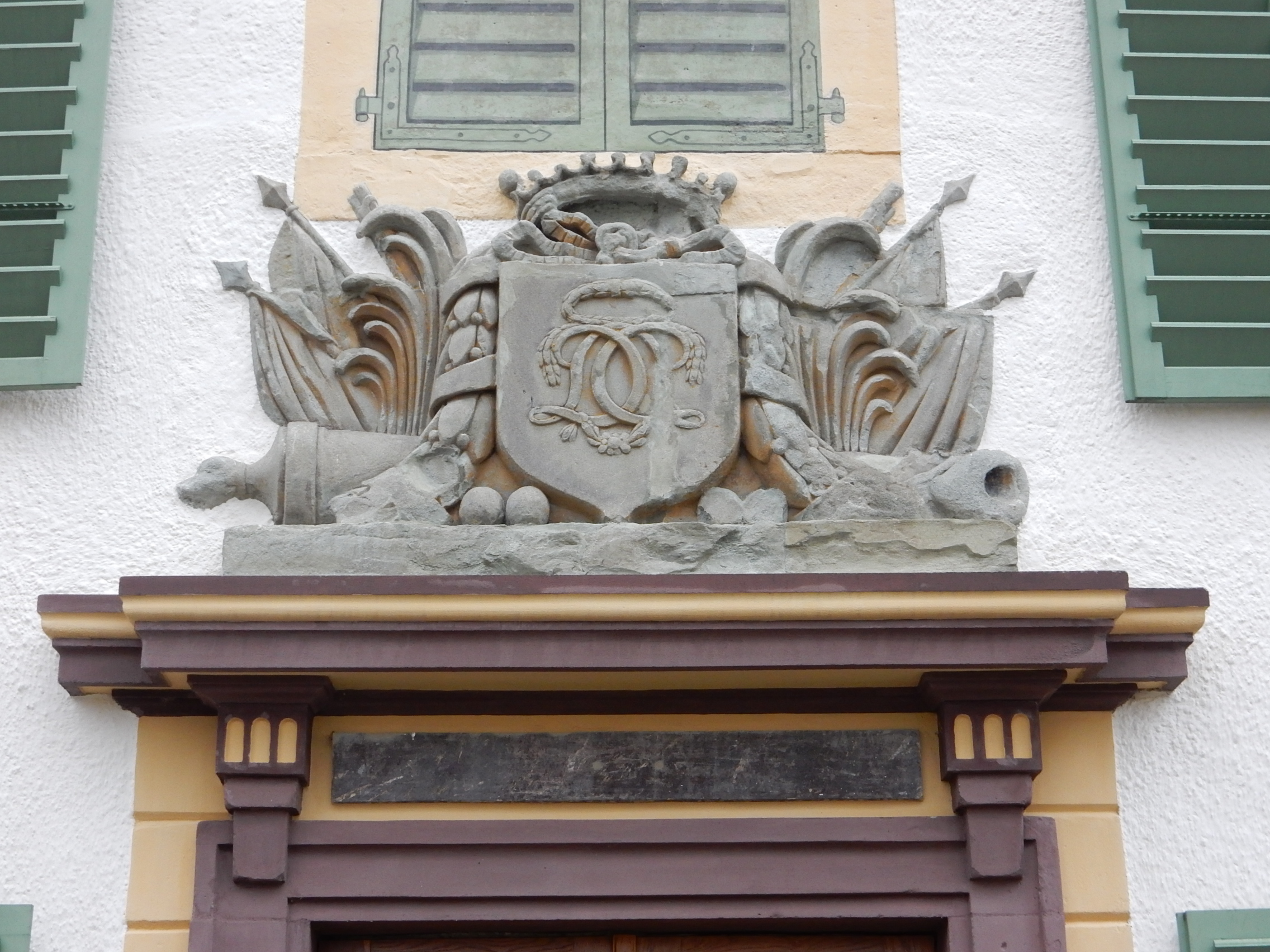 Mézières, castle, detail of the main door